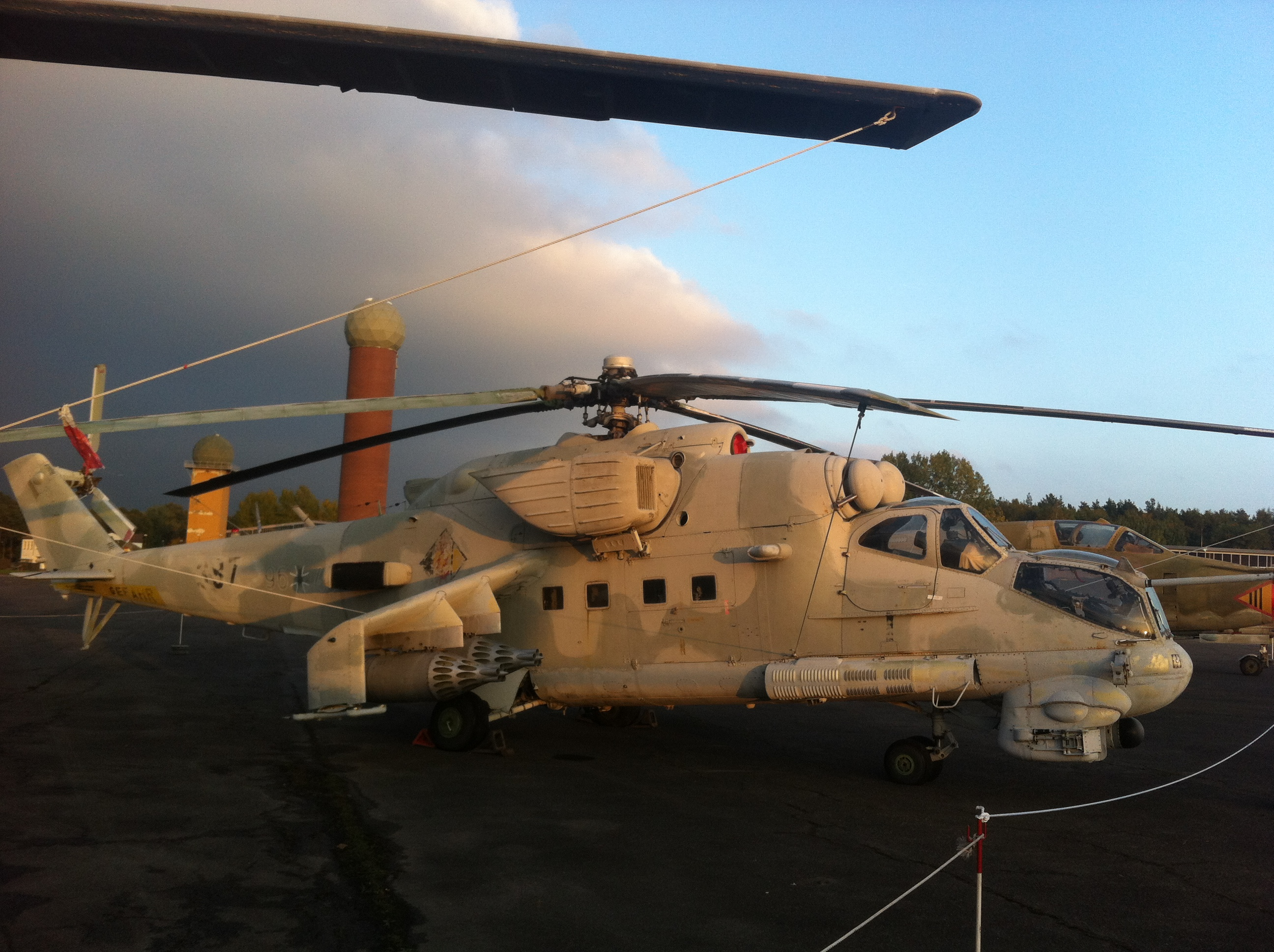 Hind-F with East German markings at Gatow